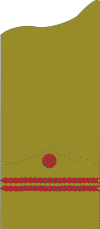 Major General (UHRP OF-7)